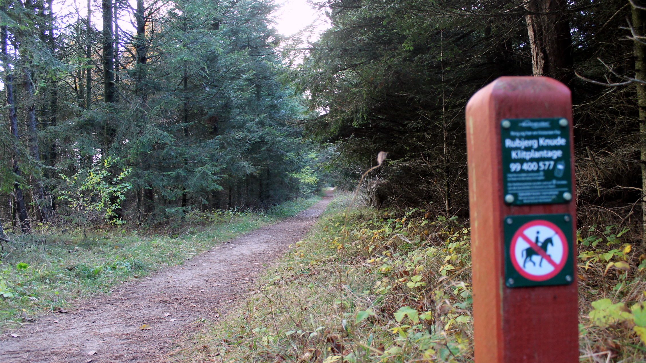 The Rubjerg Knude forest plantation in Denmark